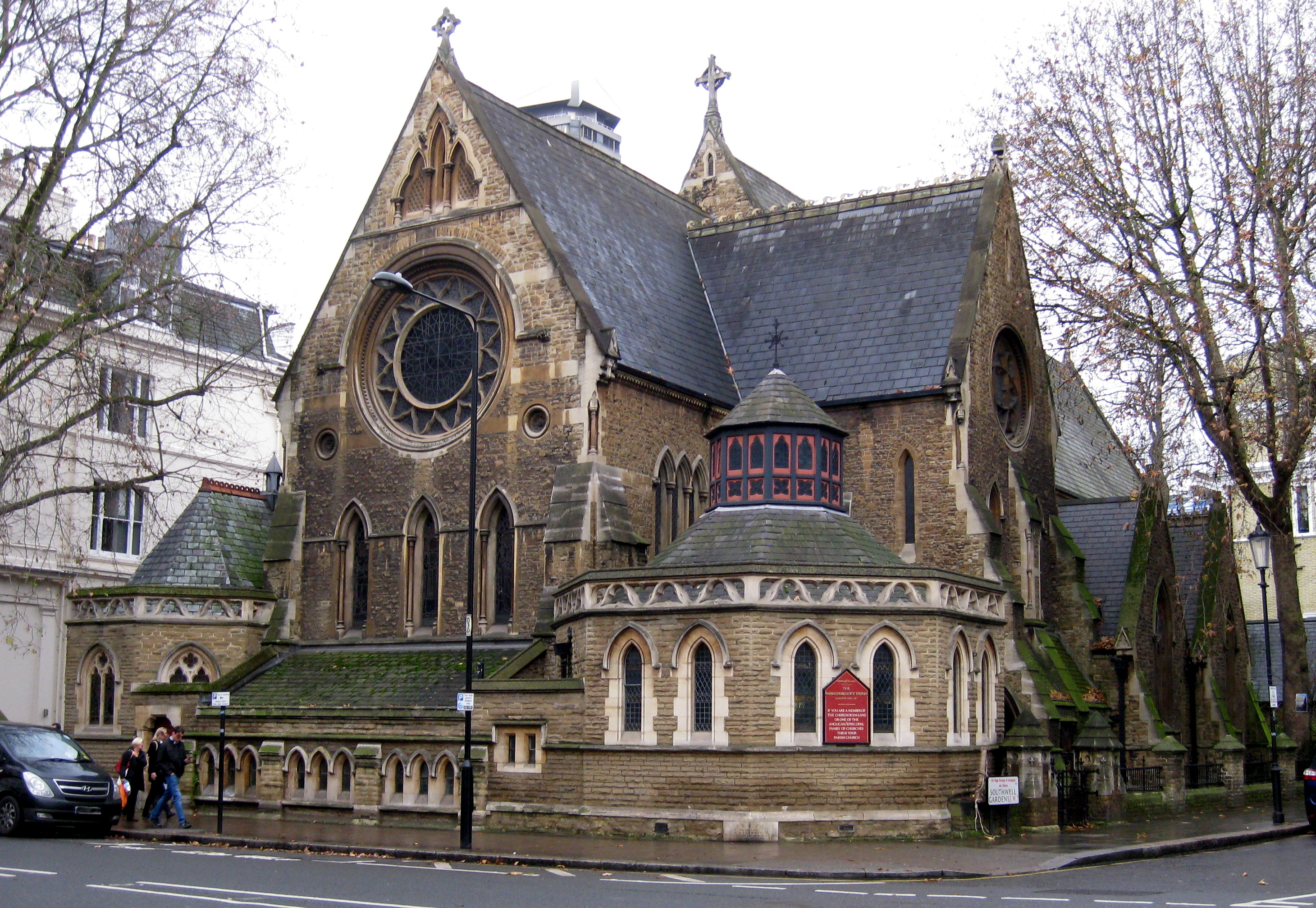 St Stephen's Church, South Kensington. Corner of Gloucester Road and Southwell Gardens (where the entrance is).